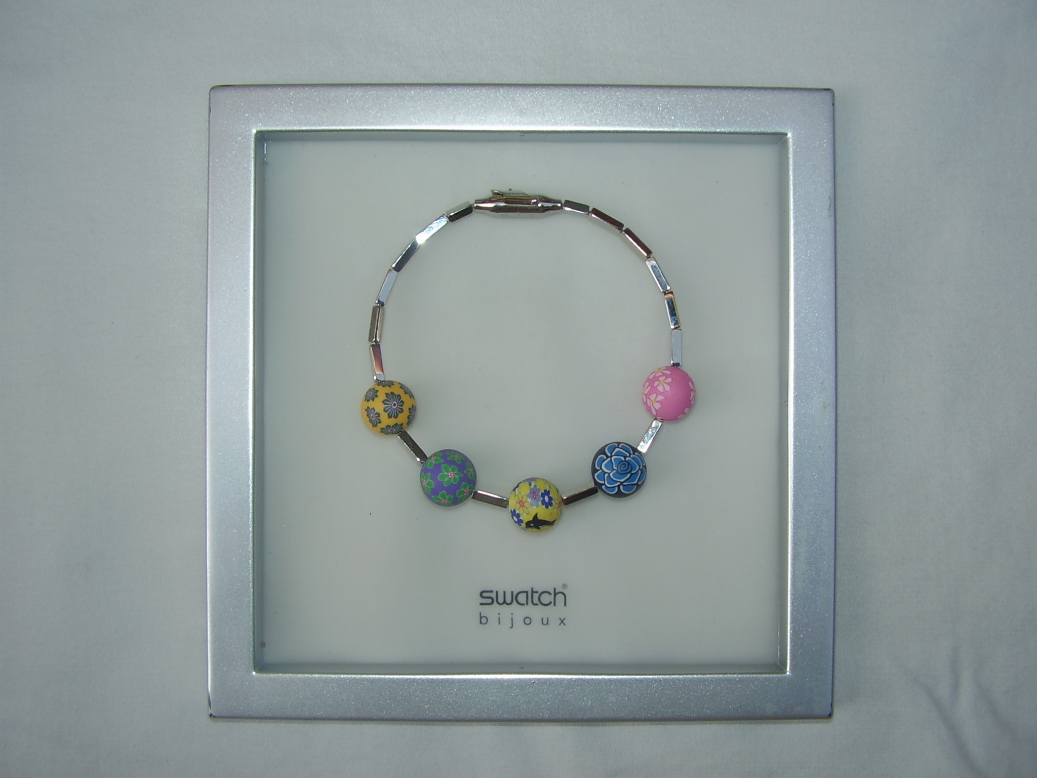 Bracelet made by Swatch in its casing.